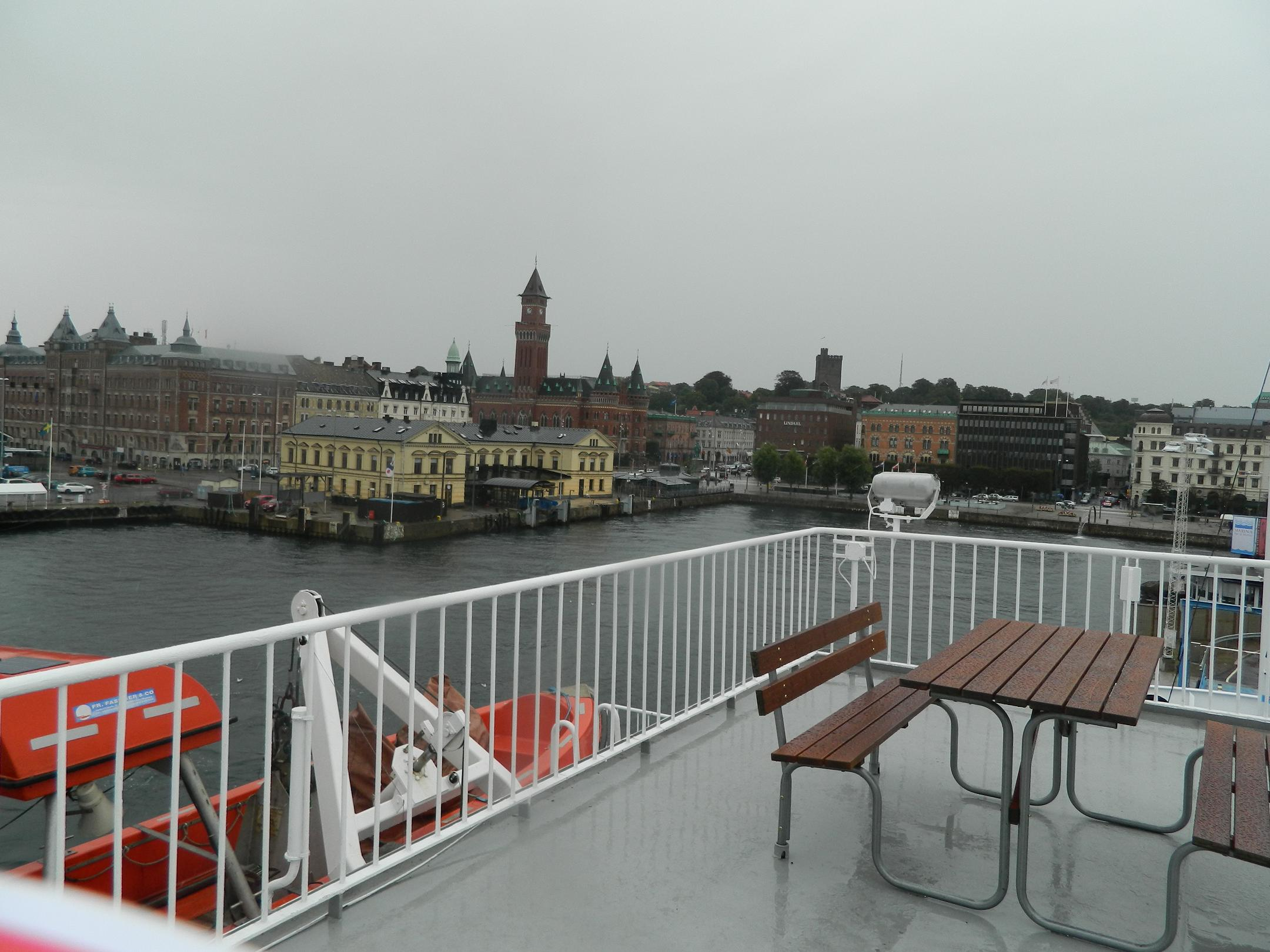 The main harbour of Helsingborg, the fortress tower "Kärnan" is seen in the background